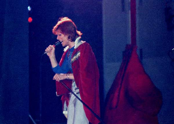 Charlotte Park Center, North Carolina, 5 July 1974.